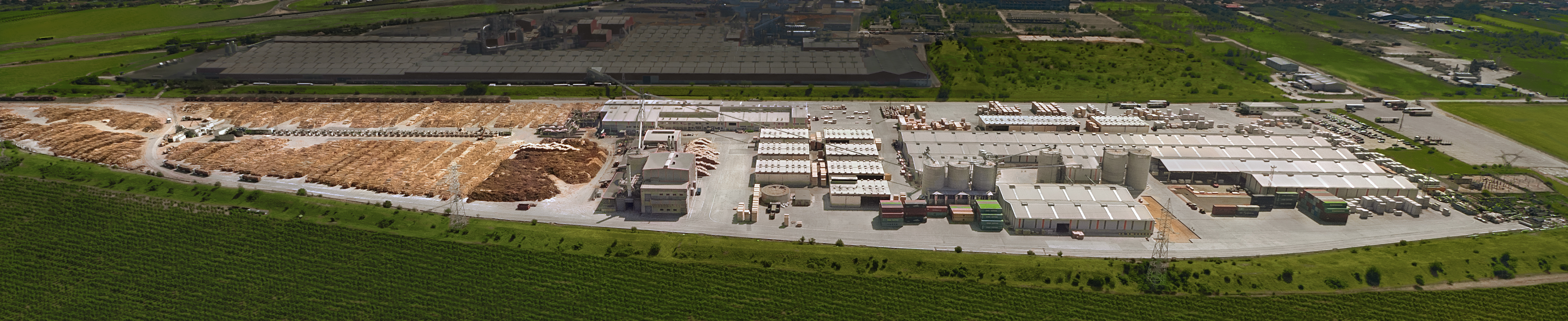 The sawmill in Sebeș, which started production in 2003, was Holzindustrie Schweighofer’s first sawmill in Romania. Today, it employs around 700 people.